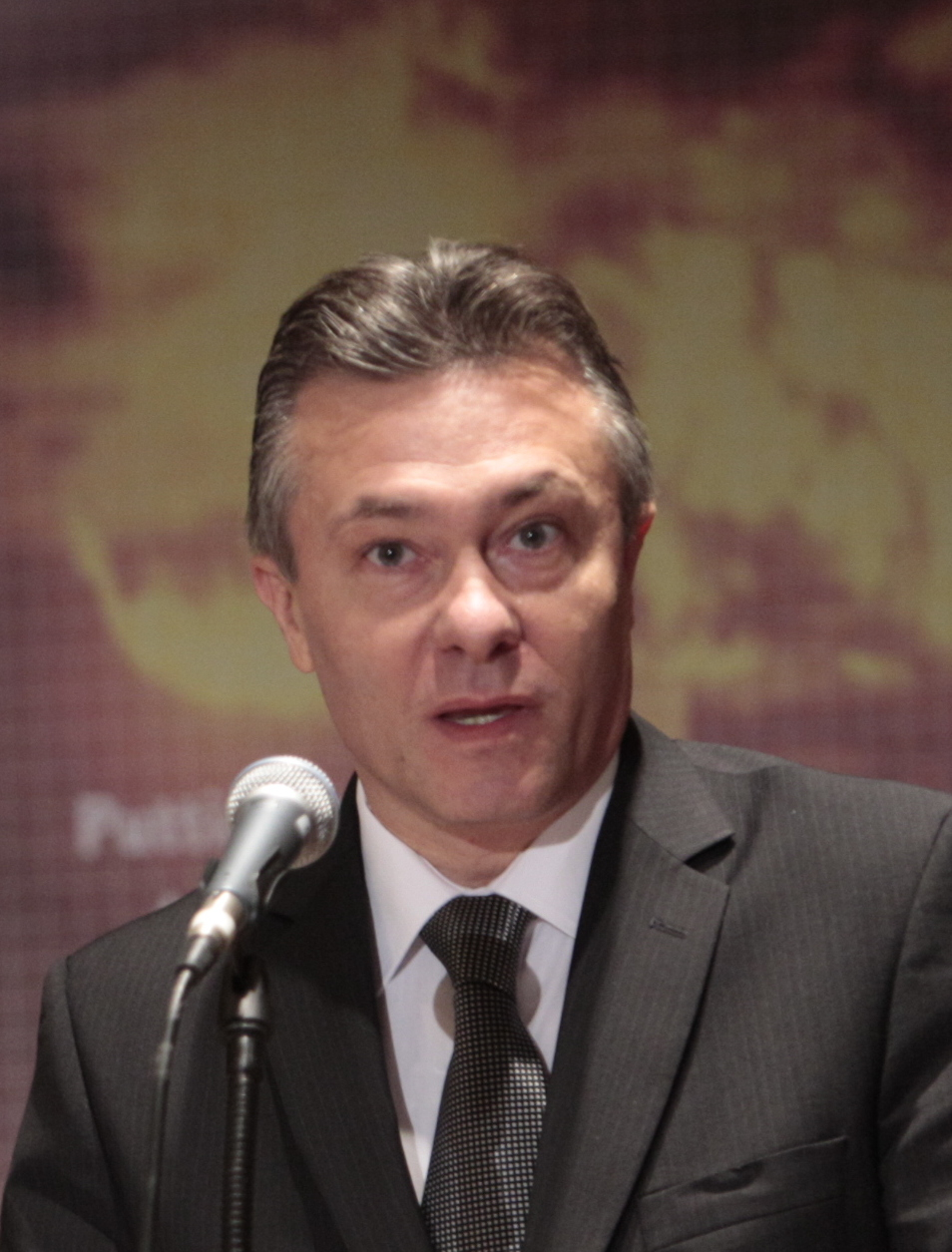 24 September 2009 - New York Minister of Foreign Affairs of Romania Cristian Diaconescu makes a statement during the Conference on Facilitating the Entry Into Force of the Comprehensive Nuclear-Test-Ban Treaty. CTBTO Photo/ Sophie Paris Copyright CTBTO Preparatory Commission